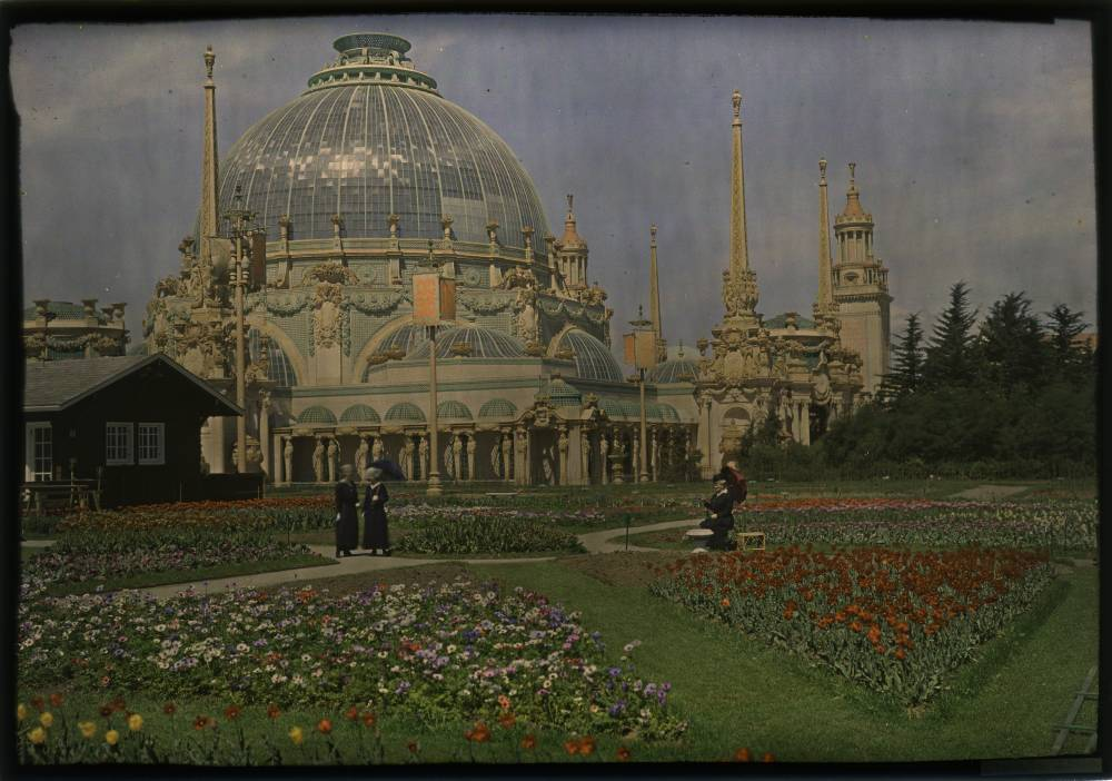 Palace of Horticulture, Pan American Exposition